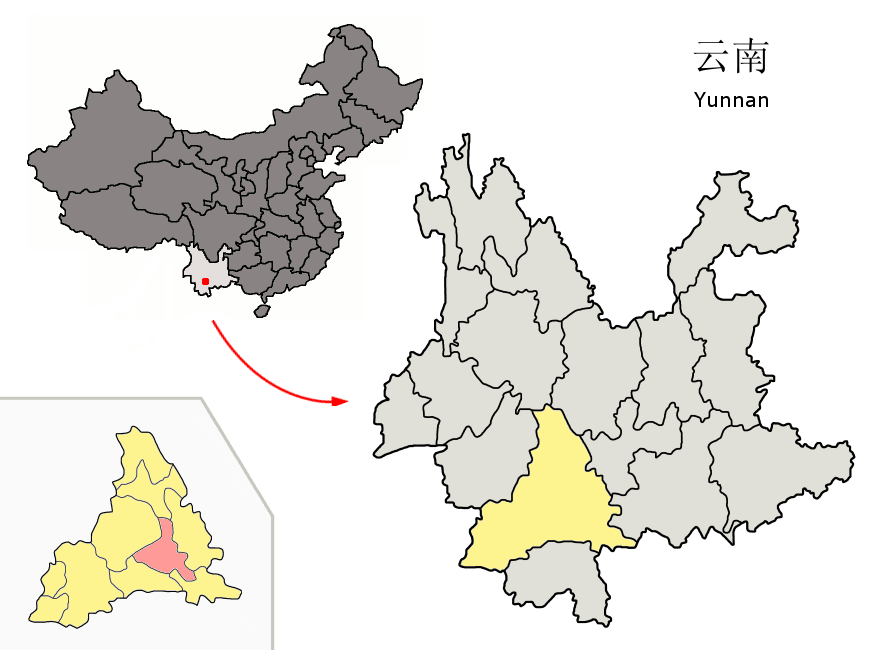 Location of Ning'er County (pink) and Pu'er Prefecture (yellow) within Yunnan province of China Map drawn in september 2007 using various sources, mainly : Yunnan province administrative regions GIS data: 1:1M, County level, 1990 Yunnan Counties map from